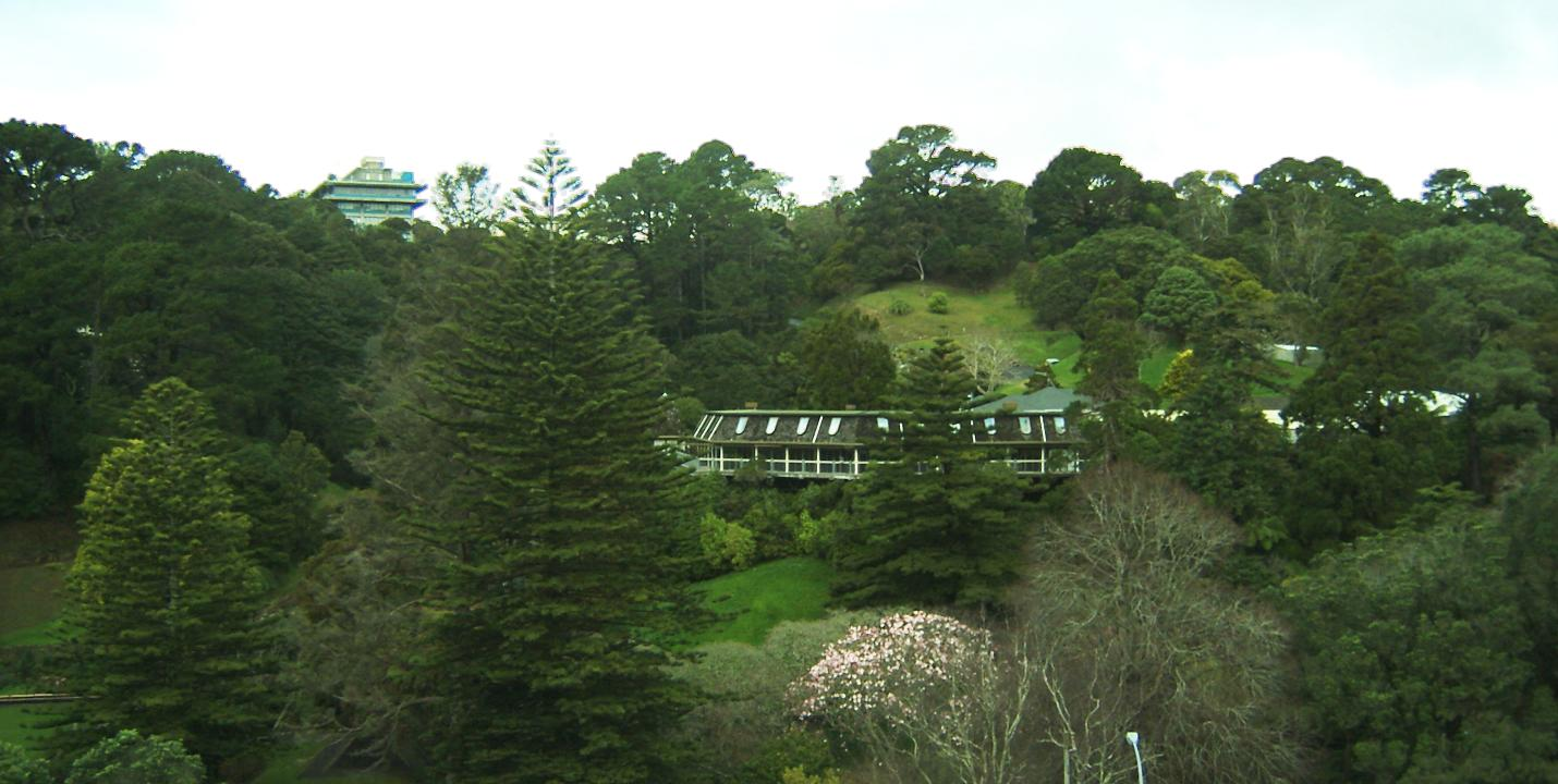 The Wellington Botanic Gardens from Tinakori Hill, Wellington, New Zealand